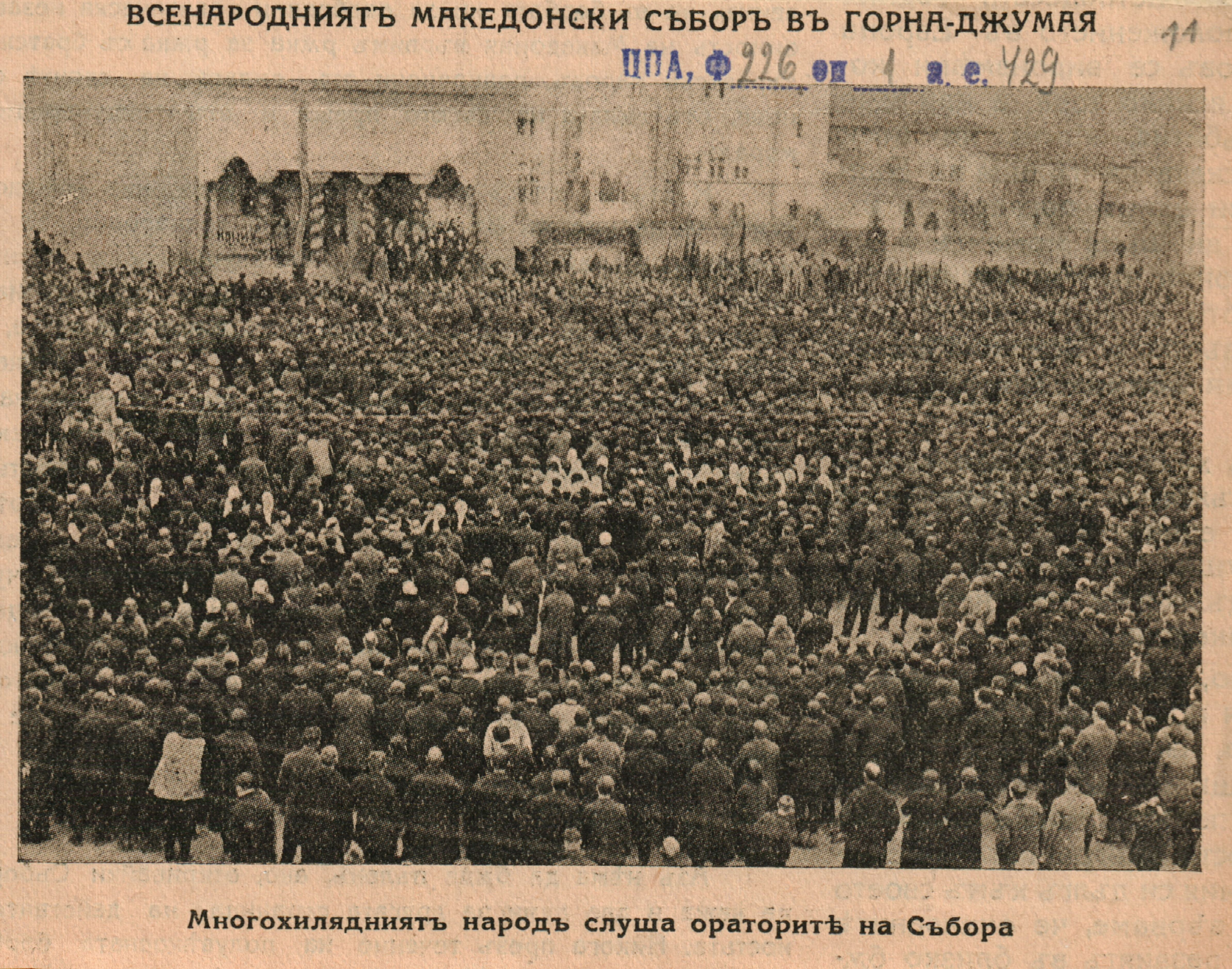 Photo from the Macedonian National Council, 1933 in Gorna Dzhumaya (Blagoevgrad).